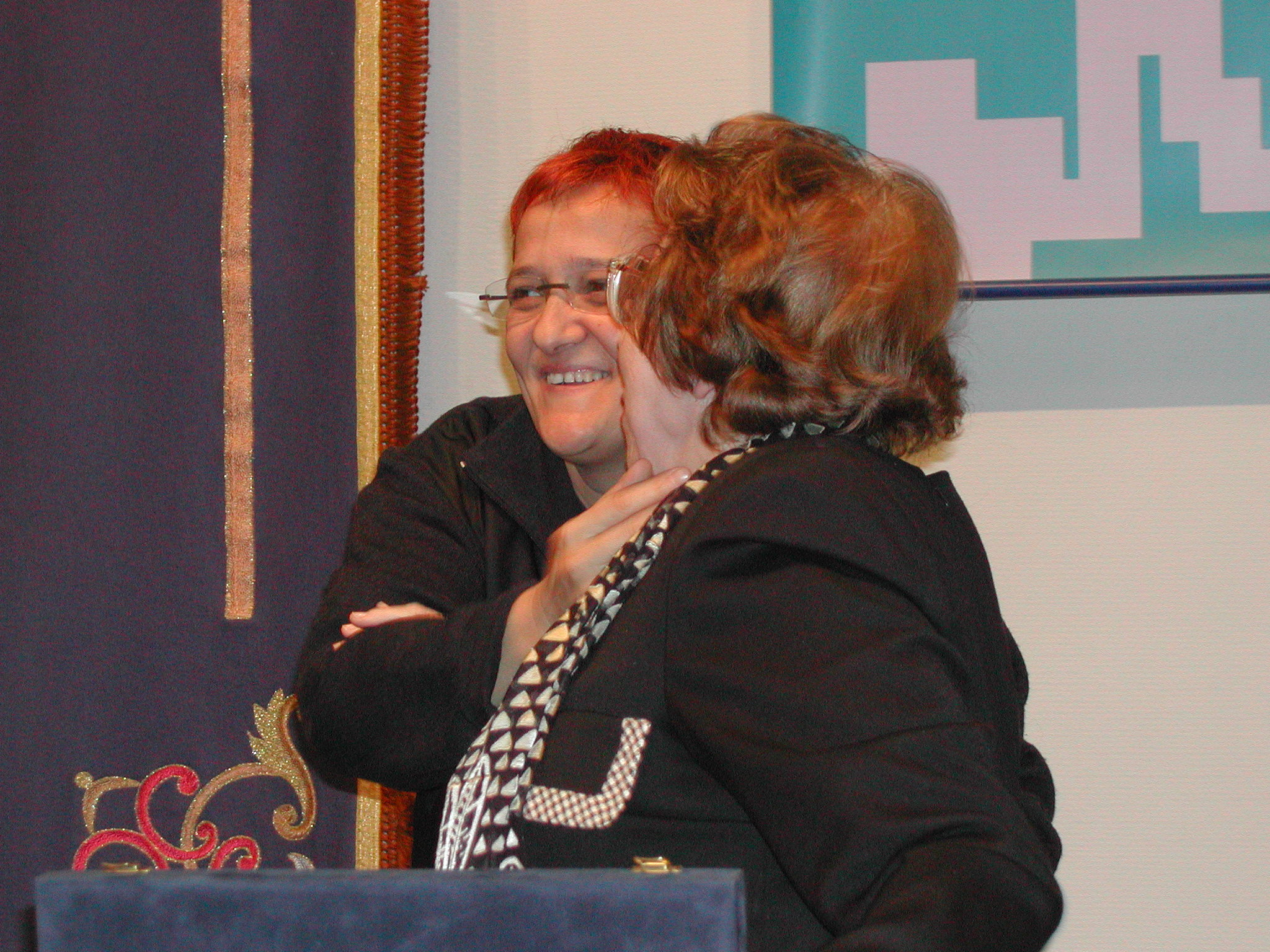 Nombre de archivo :DSCN0062.JPG Tamaño de archivo :776.7 KB (795309 Bytes) Fecha de entrega :2001/11/29 11:08:31 Tamaño de imagen :2048 x 1536 Resolución :300 x 300 ppp Número de bits :canal de 8 bits Atributo Protección :Desactivado Atributo Ocultar :Desactivado ID de la cámara :N/A Cámara :E885 Modo Calidad :NORMAL Modo Medición :Multipatrón Modo Exposición :Automático Programado Speed Light :Sí Distancia Focal :24 mm Velocidad del disparador :1/60.1segundo Abertura :F4.9 Compensación de exposición :0 EV Balance del blanco fijo :Automático Objetivo :Incorporado Modo de sincronización del flash :Cortina Delantera Diferencia de exposición :N/A Programa Flexible :N/A Sensibilidad :Auto Nitidez :Automático Tipo de imagen :Color Modo de color :N/A Ajuste de tonos :N/A Control de saturación :Normal Compensación de tono :Automático Latitud (GPS) :N/A Longitud (GPS) :N/A Altitud (GPS) :N/A